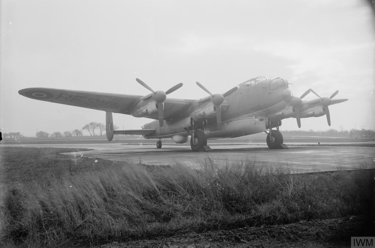 An Avro Lancaster ASR Mk.III heavy bomber modified for air-sea rescue work. This aircraft was operated by No. 279 Squadron RAF until it crashed in Burma on 4 March 1946.